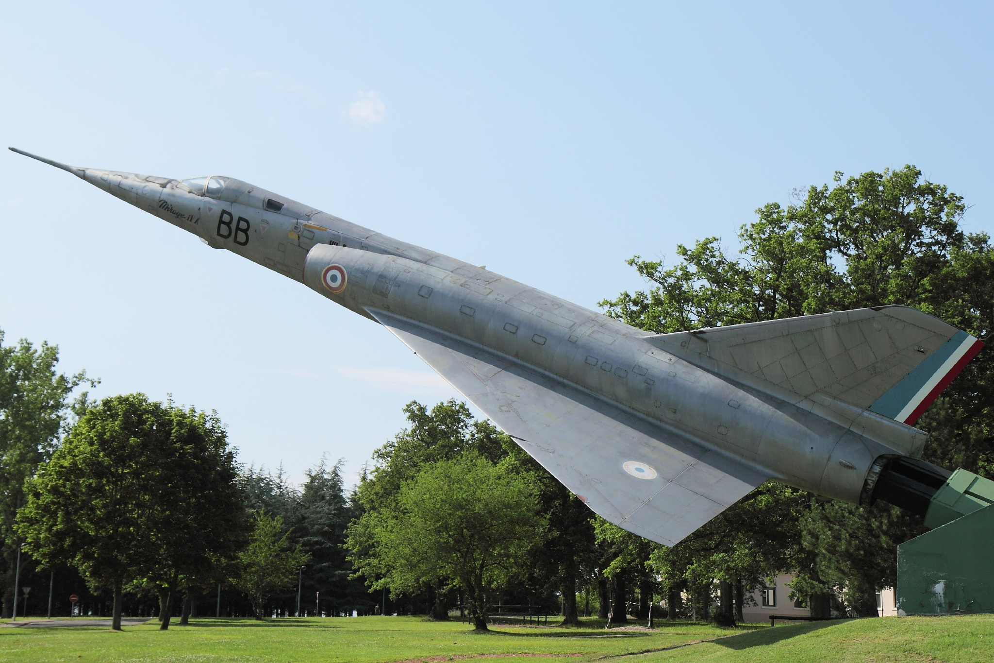 Left side of French Mirage IV n°29 (BB) in BA 702 Avord (France)